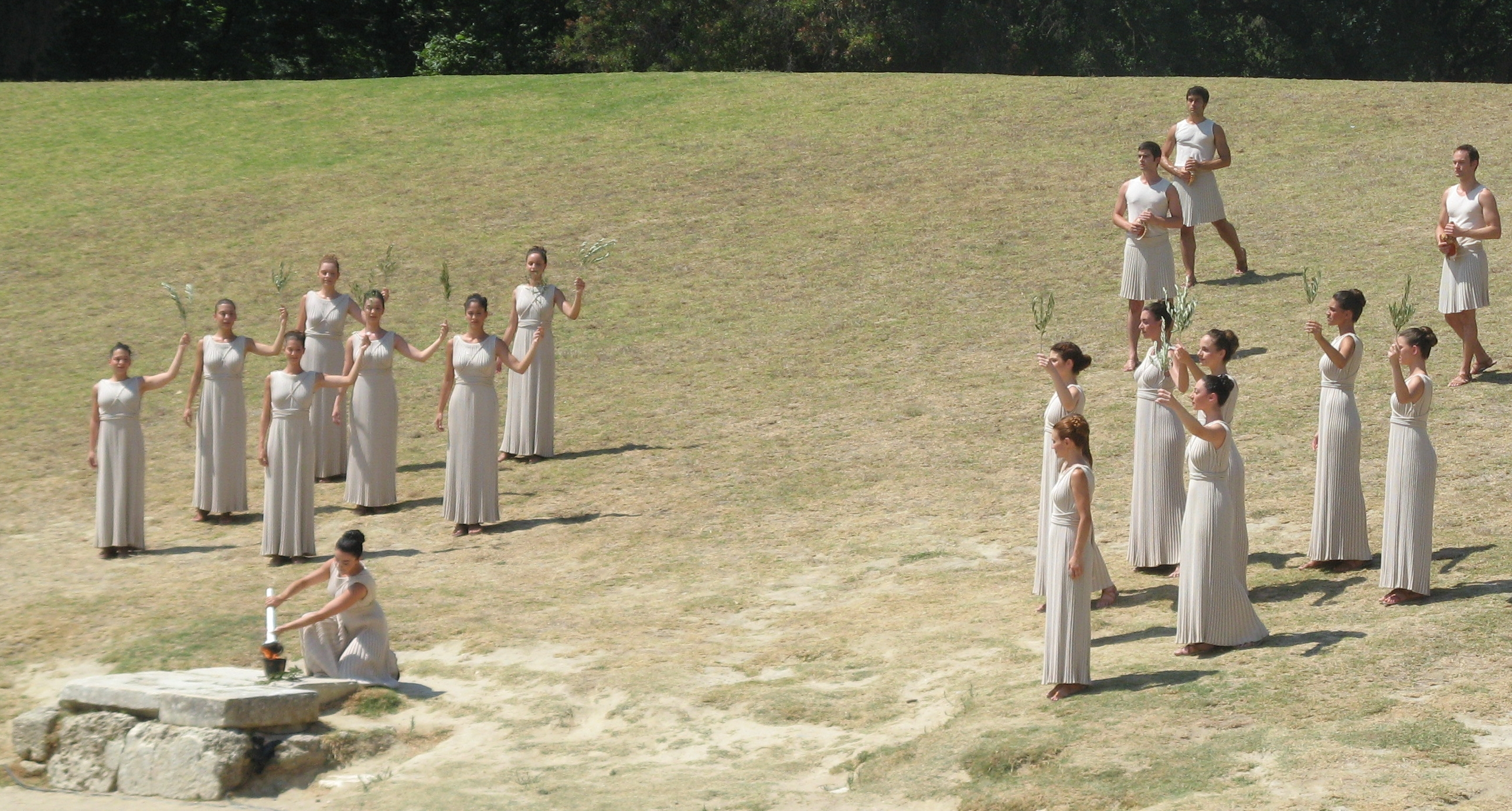 Ignition of the olympic torch at the olympic torch ignition ceremony for the 2010 Summer Youth Olympics; Olympia, Greece